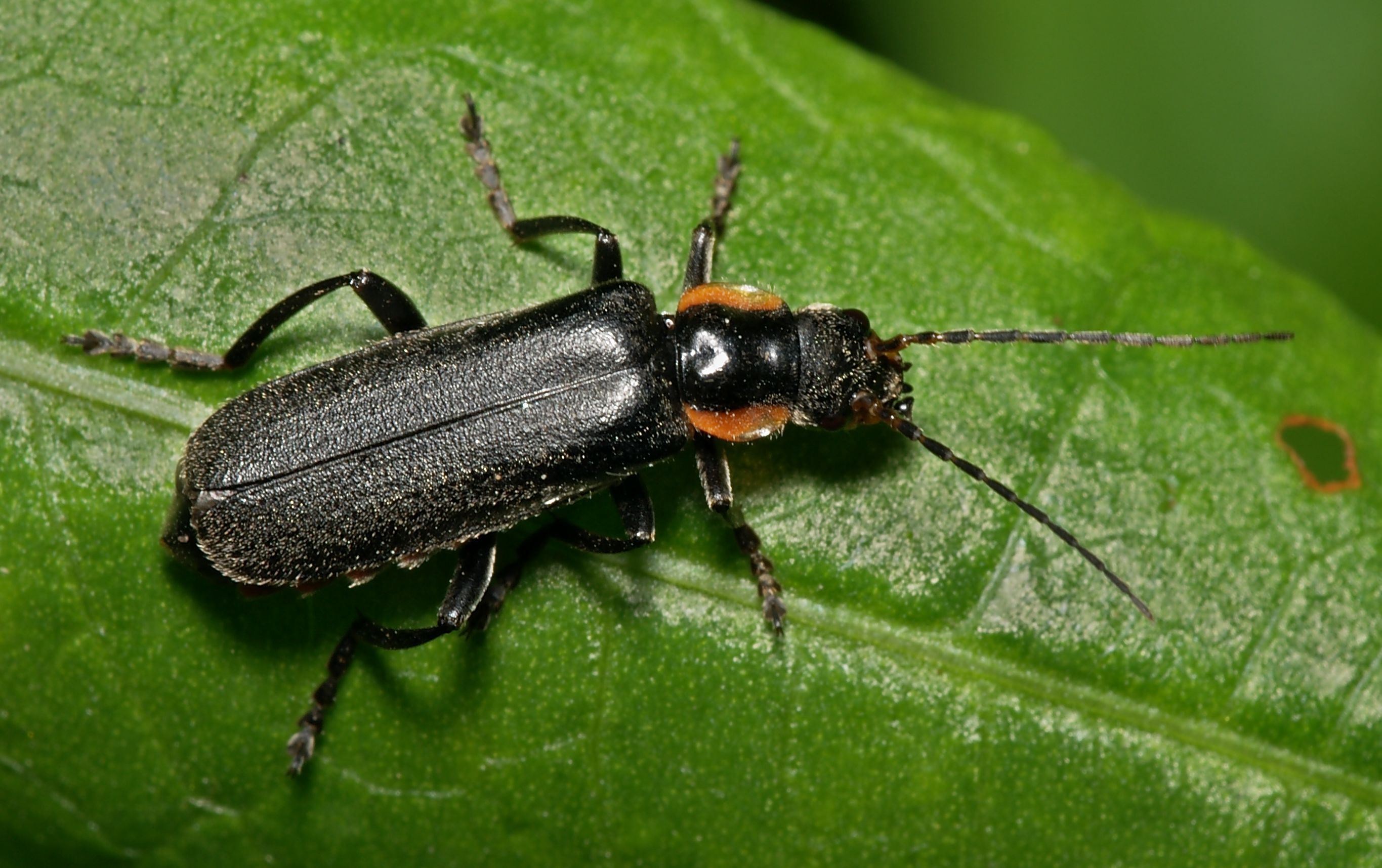 Cantharis obscura from Koenigsforst near Cologne, Germany. (there's a small probability it's the very similar C. paradoxa)